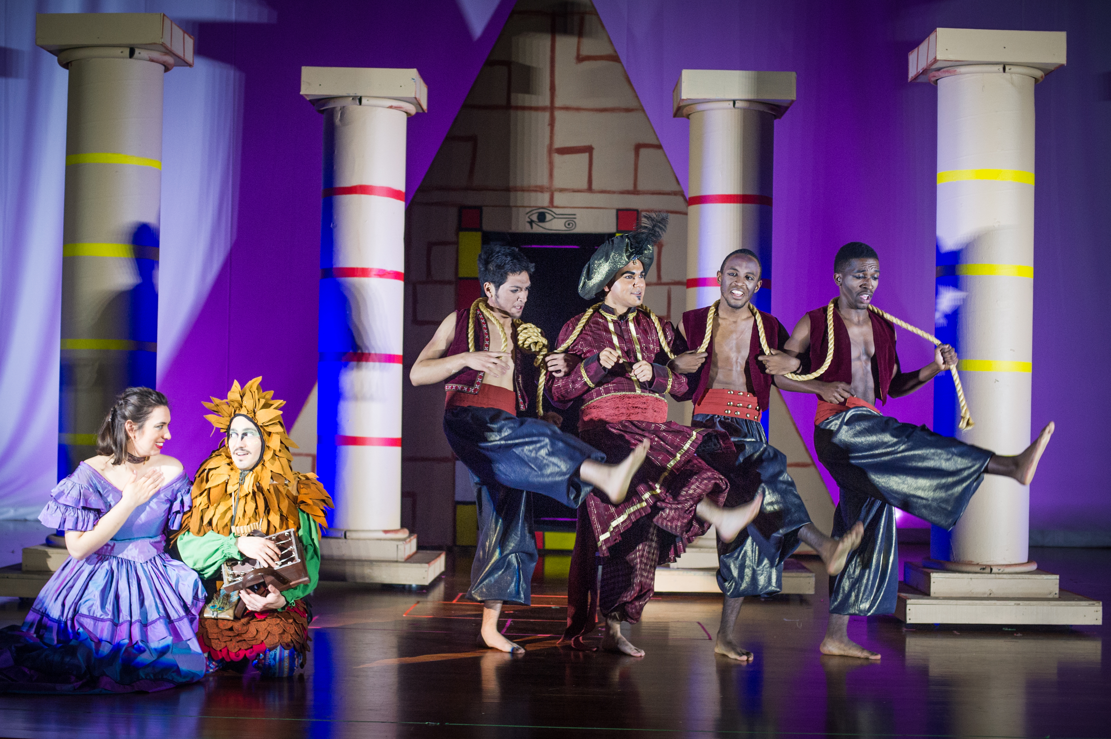 15031-Magic Flute Production-0374 Magic Flute production at Texas A&M University–Commerce